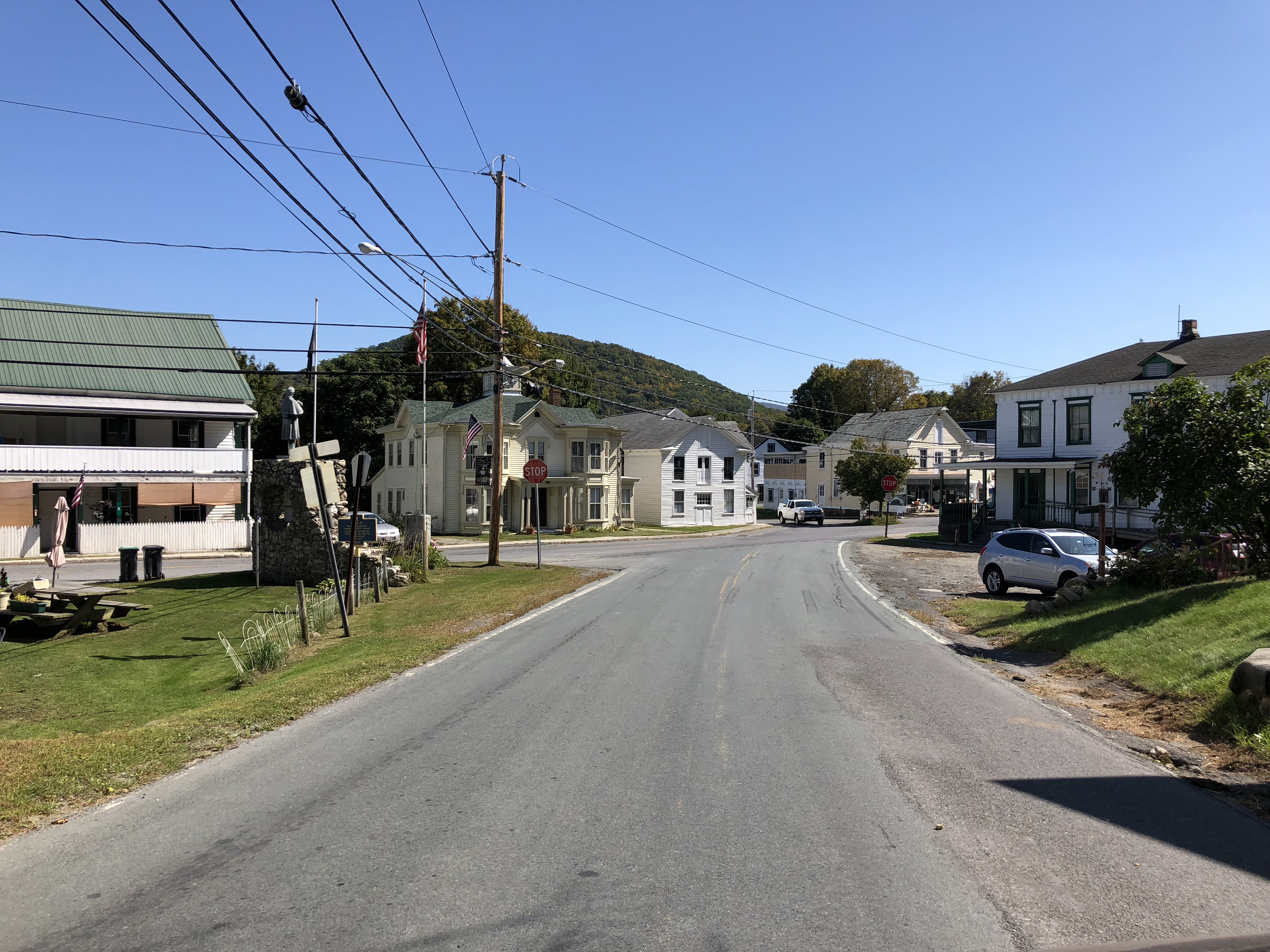 View east along Rensselaer County Route 40 (Plank Road) just west of Rensselaer County Route 36 (Main Street) in Berlin, Rensselaer County, New York